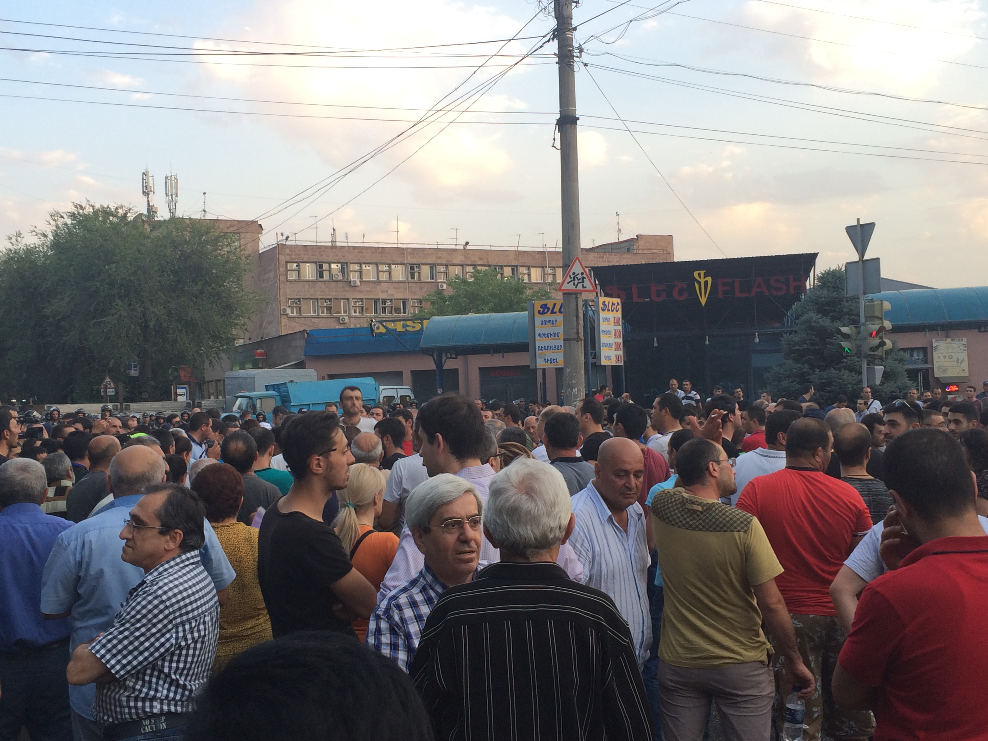 Protesters in Khorenatsi street.